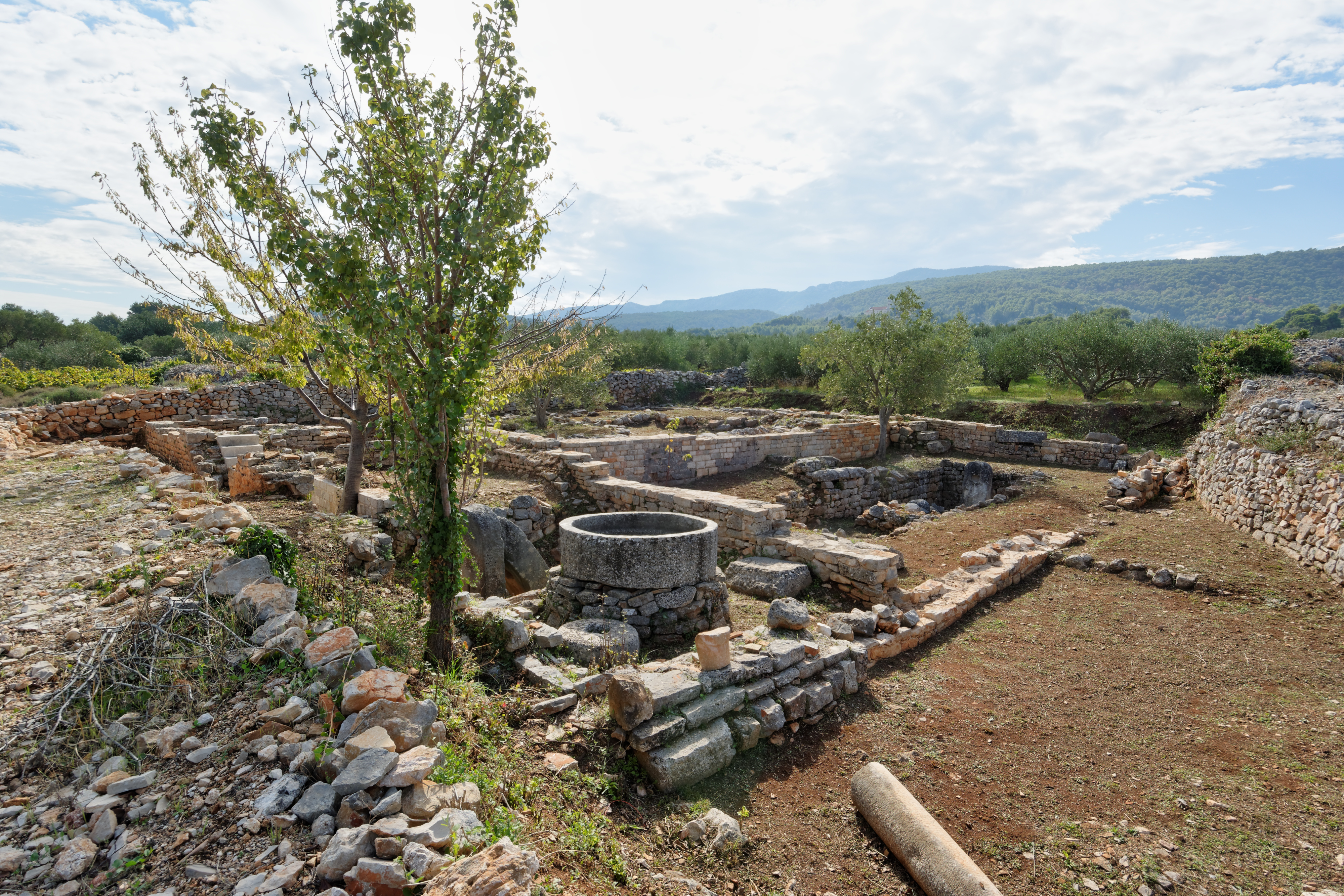 Kupinovik remains of Roman villa, Stari Grad Plain, Island of Hvar, Croatia